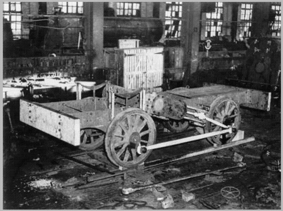 Natal Railway Co "Natal" (0-4-0WT)Location: Durban shops, Natal